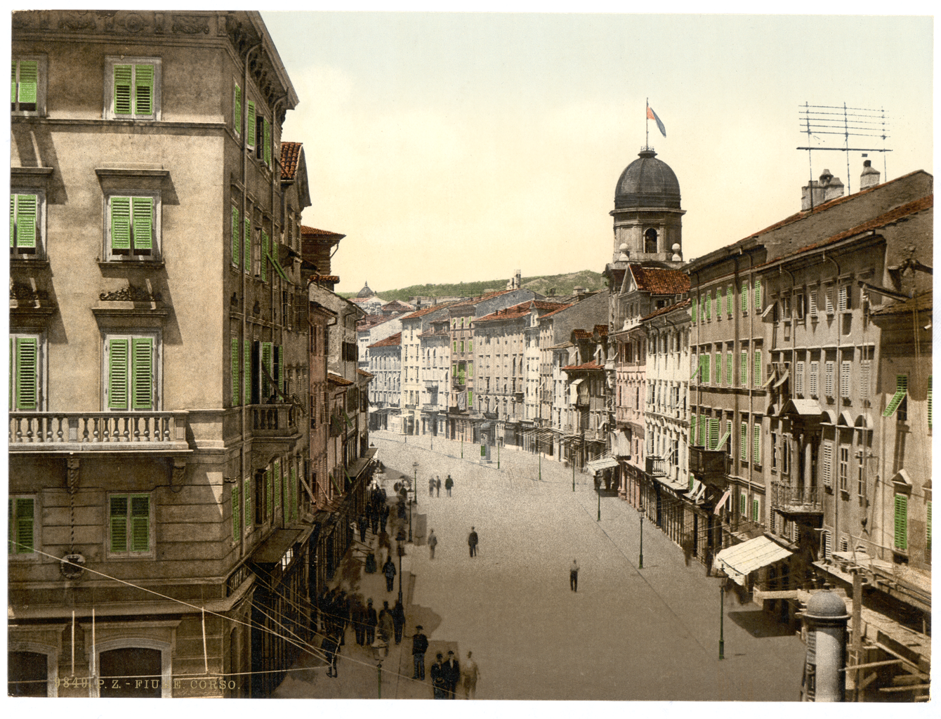 This photochrome print is from “Views of the Austro-Hungarian Empire,” a selection of photographs of late 19th-century tourist sites in Eastern and Central Europe (formerly known as the Austro-Hungarian Empire) that was part of the catalog of the Detroit Publishing Company. It depicts the famous Corso, or promenade, in Fiume, as the present-day city of Rijeka, Croatia, was known at the time. The city, which dates to Roman times, was part of Austria-Hungary before World War I and was populated by both Croats and ethnic Italians. It became an object of contention in the postwar peace settlement and in 1924 was ceded under pressure to Italy by the new state of Yugoslavia. It was returned to Yugoslavia after World War II. Croatia left the Yugoslav federation and became an independent state in 1991. Cities and towns